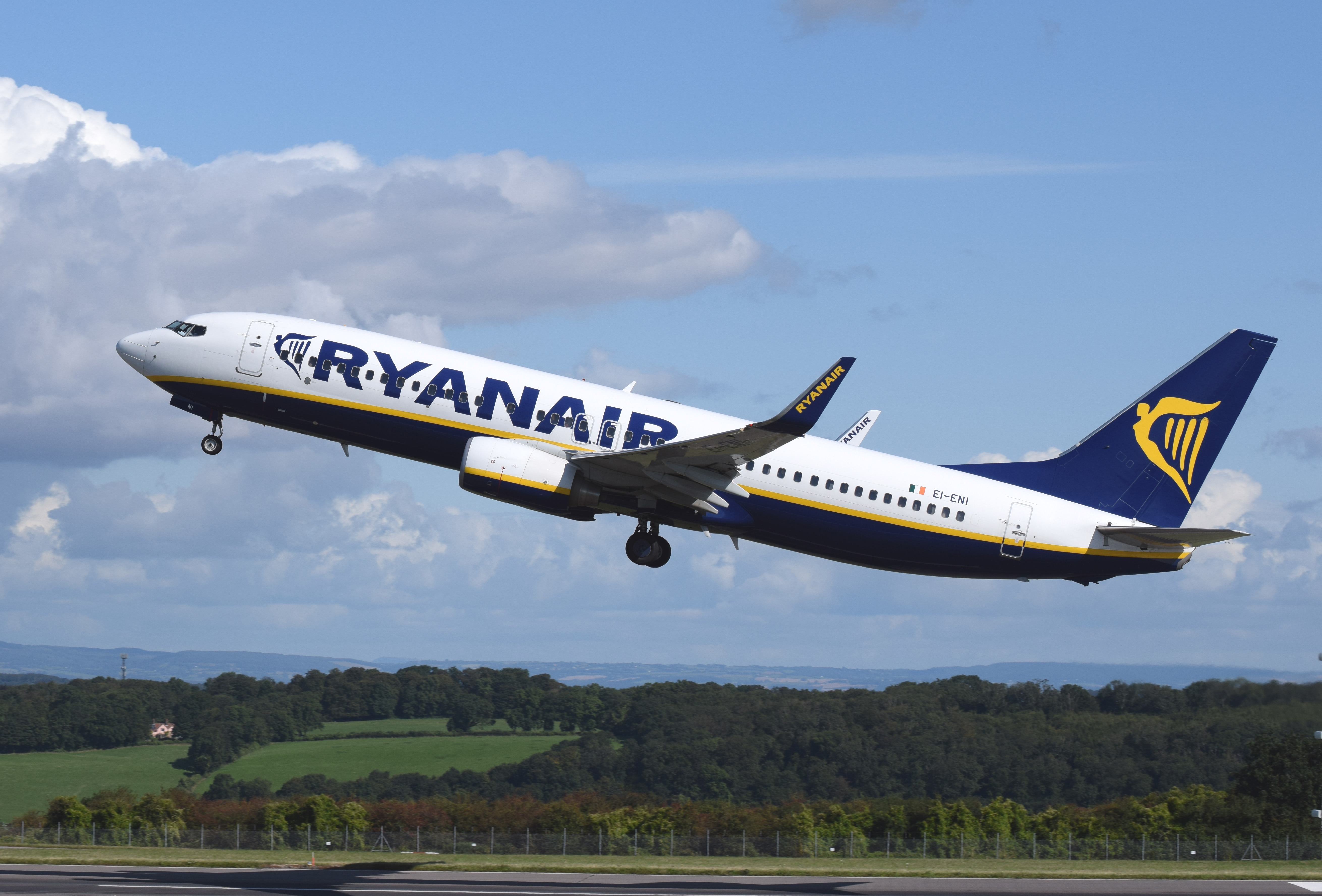 Ryanair Boeing 737-800 (EI-ENI) departs Bristol Airport, England.